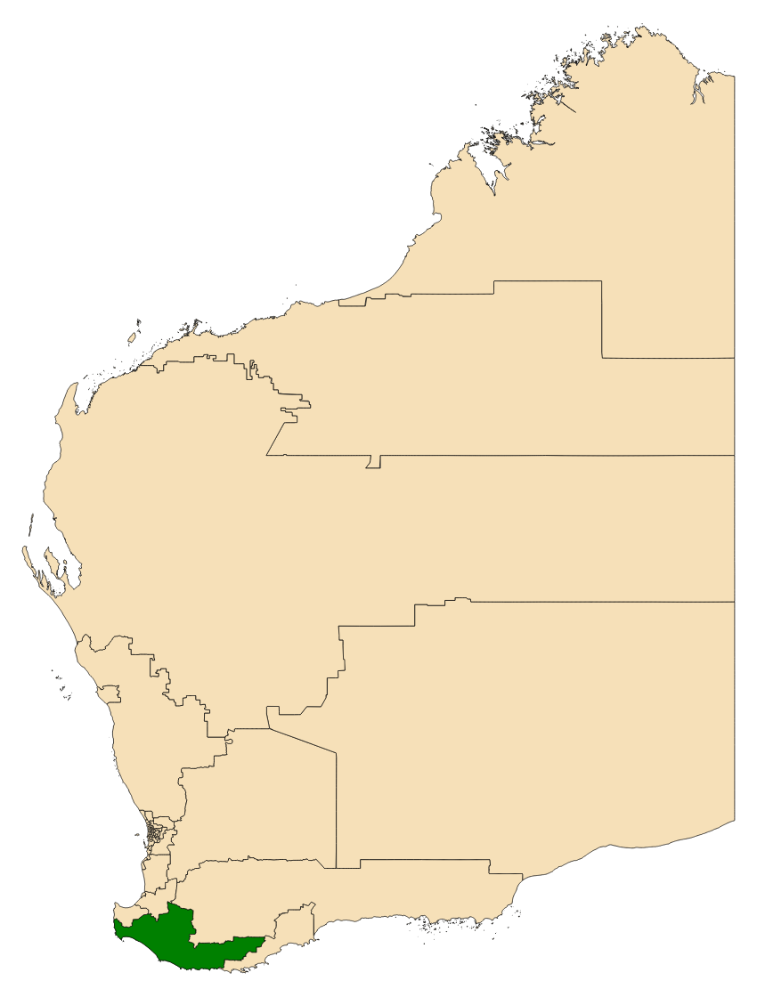 Location of the electoral district of Warren-Blackwood in Western Australia as of the 2017 WA state election.